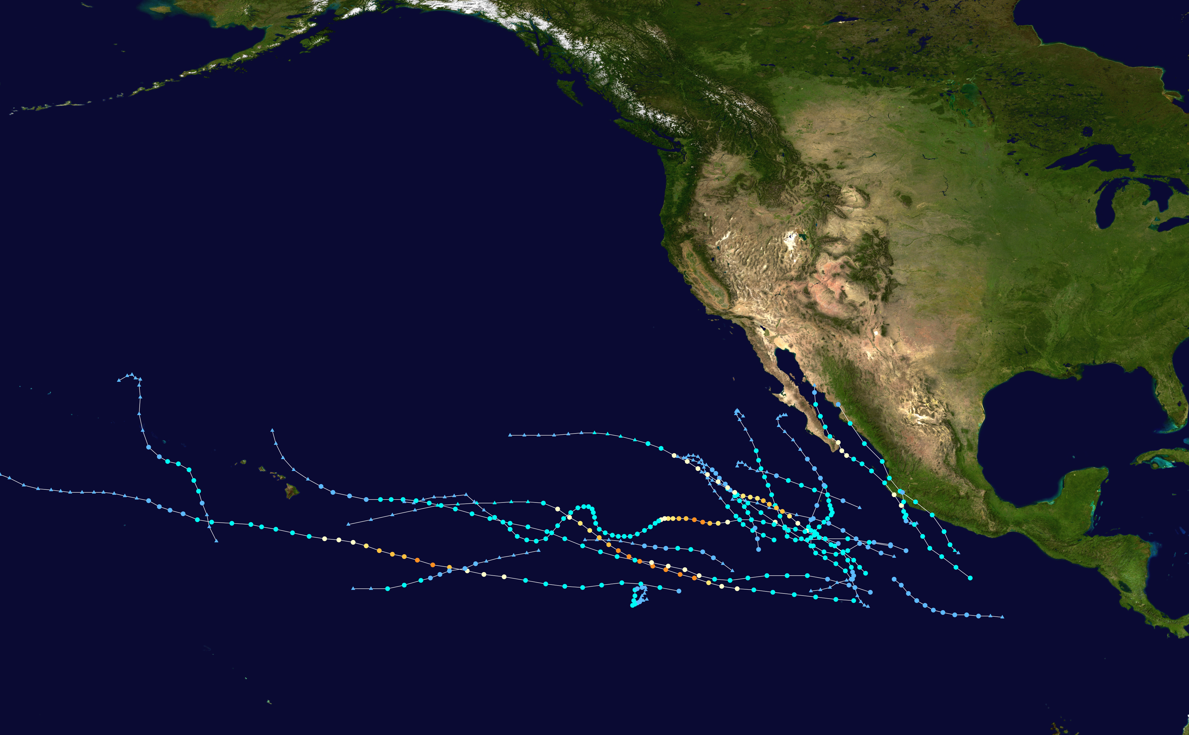 This map shows the tracks of all tropical cyclones in the 2019 Pacific hurricane season. The points show the location of each storm at 6-hour intervals. The colour represents the storm's maximum sustained wind speeds as classified in the Saffir-Simpson Hurricane Scale (see below), and the shape of the data points represent the type of the storm. Saffir–Simpson scale Tropical depression≤38 mph≤62 km/h Category 3111–129 mph178–208 km/h Tropical storm39–73 mph63–118 km/h Category 4130–156 mph209–251 km/h Category 174–95 mph119–153 km/h Category 5≥157 mph≥252 km/h Category 296–110 mph154–177 km/h Unknown Storm type Tropical cyclone Subtropical cyclone Extratropical cyclone / Remnant low / Tropical disturbance / Monsoon depression